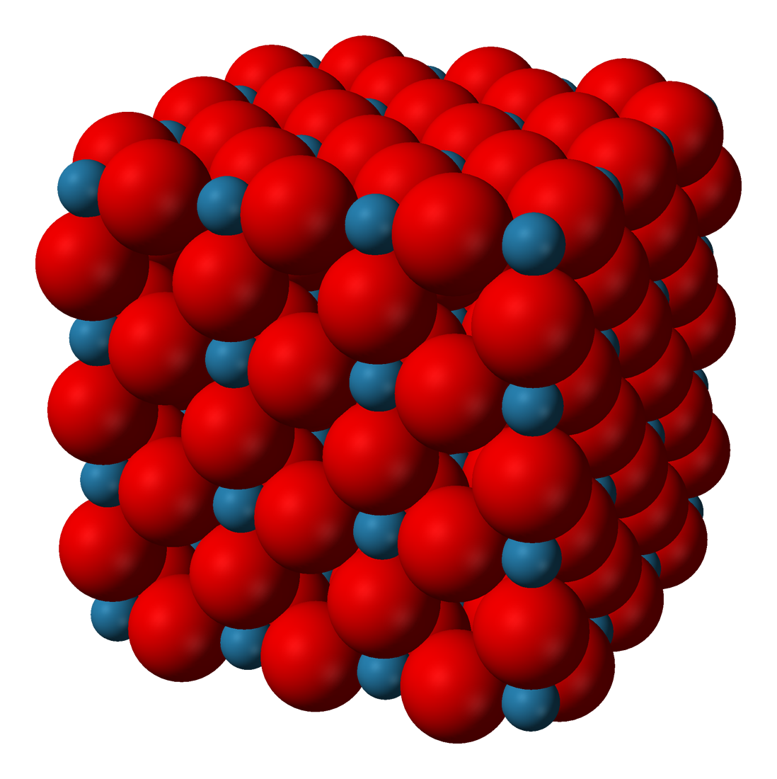 Space-filling model of the part of the crystal structure of rhenium trioxide, ReO3